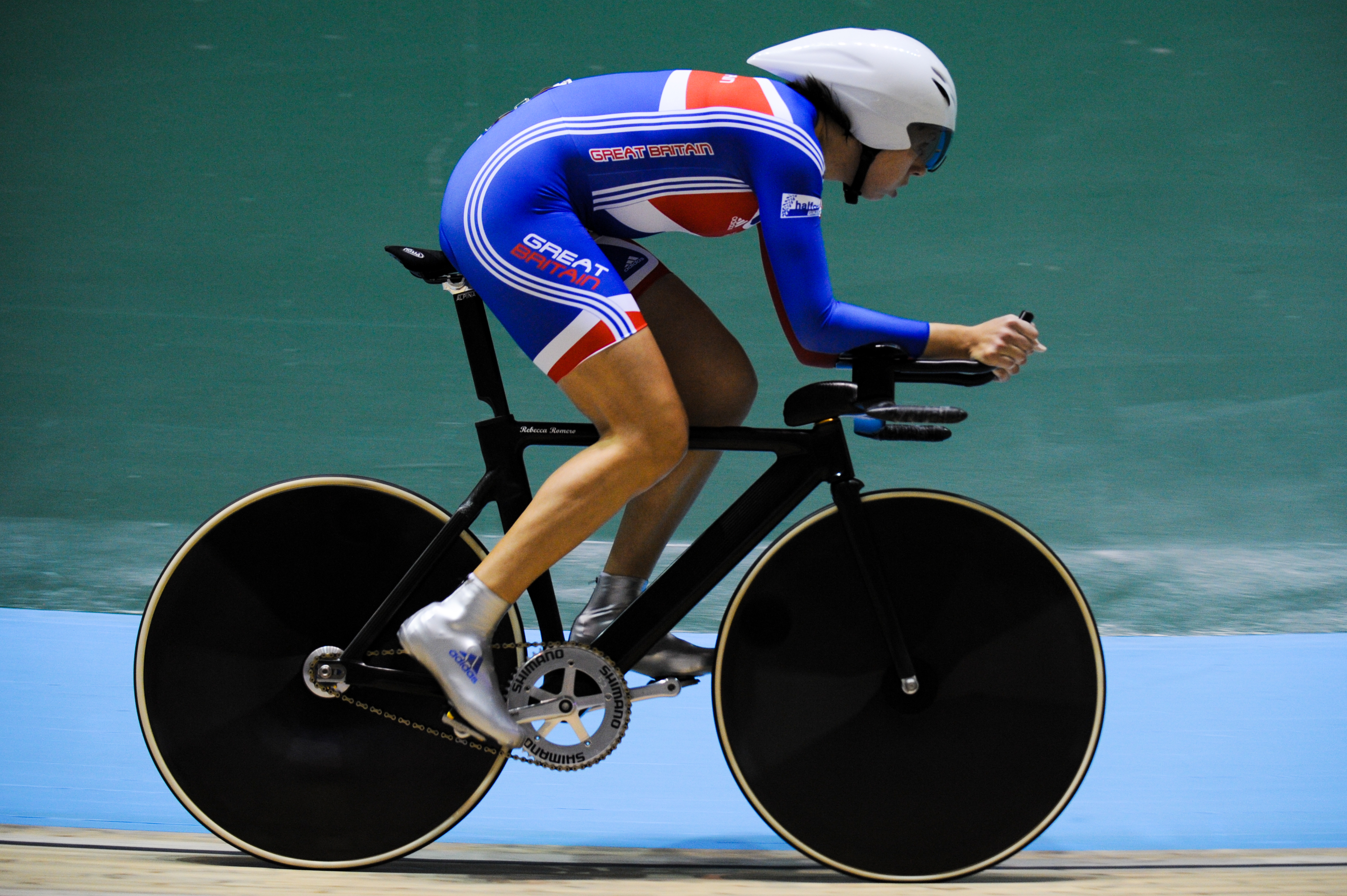 Rebecca Romero at the 2008 UCI World Track Cycling Champinships in Manchester